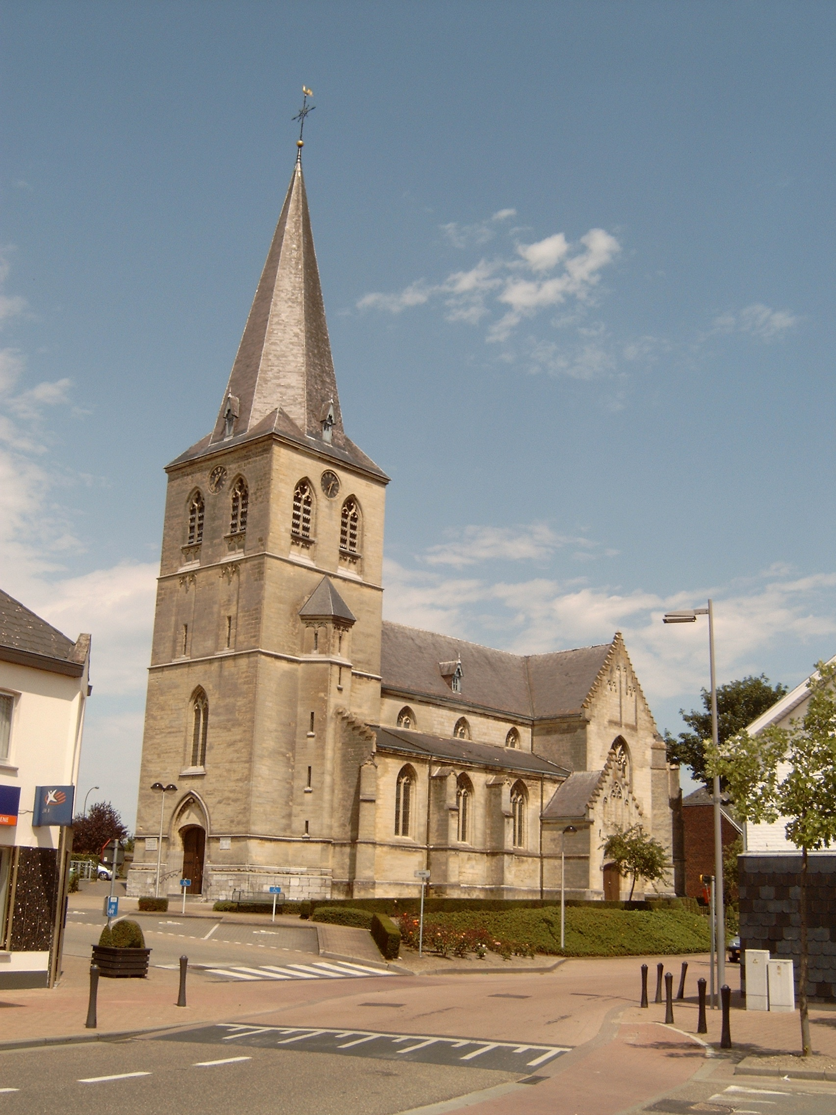 Gruitrode, church